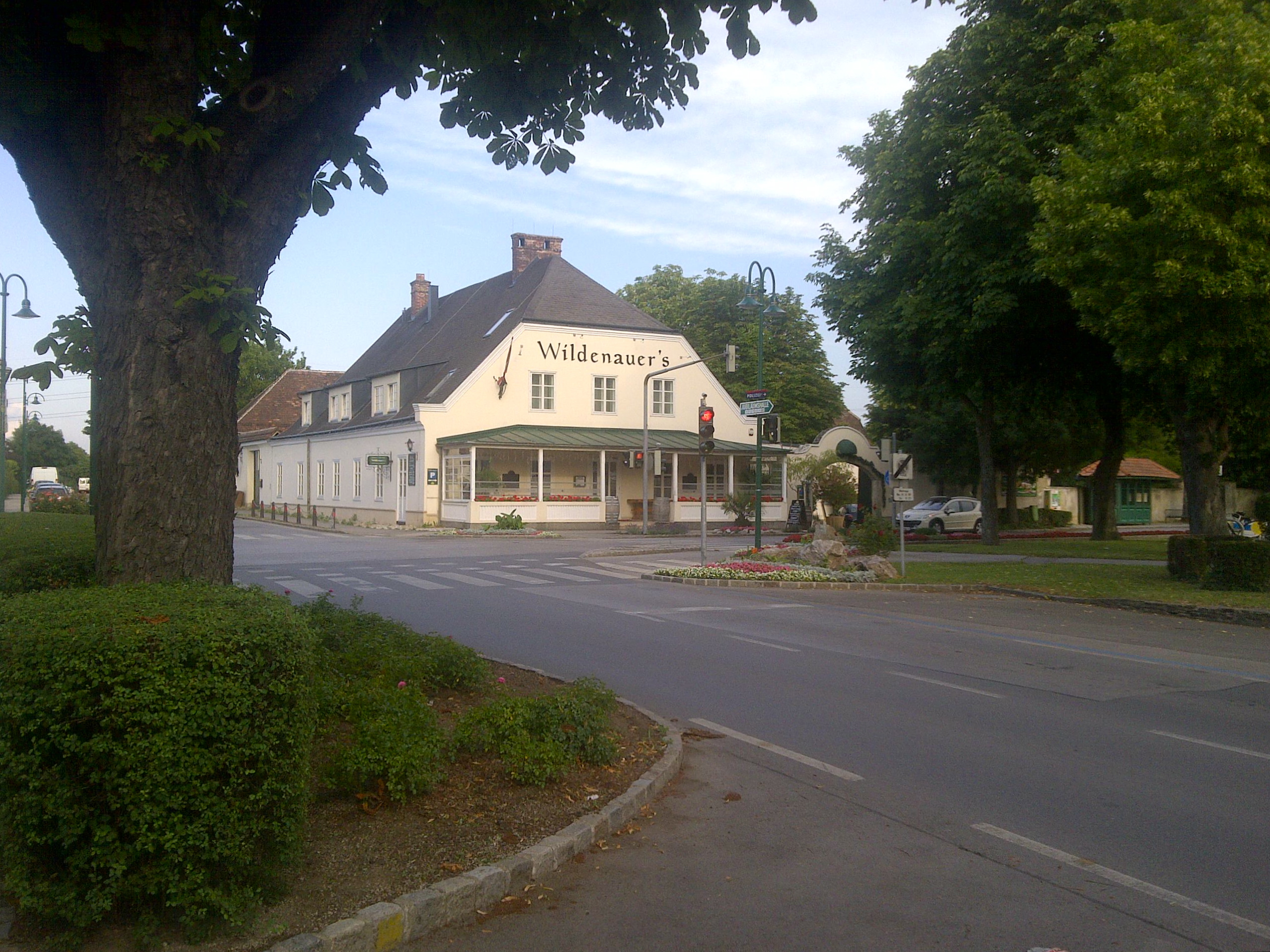 Wildenauer's hotel and restaurant, Biedermannsdorf, Moedling district, Lower Austria